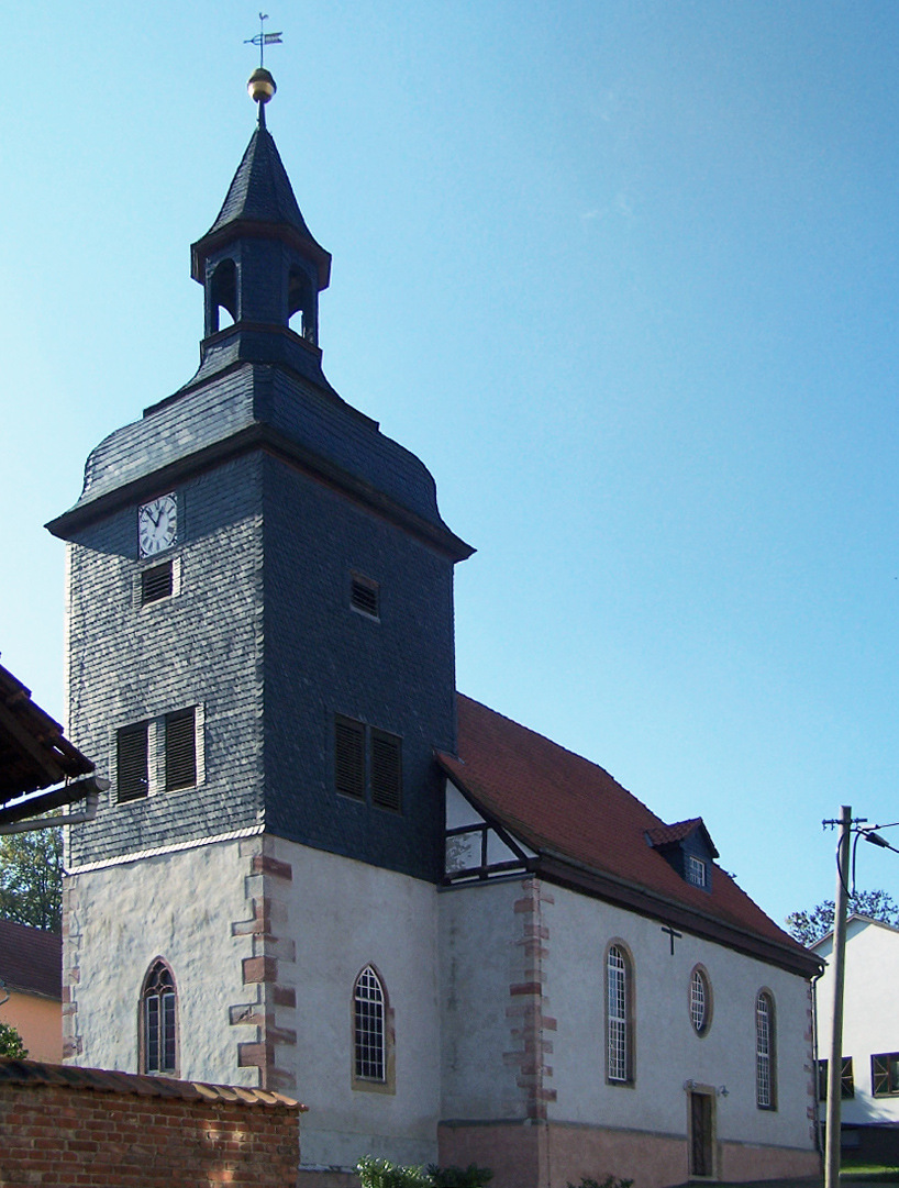 The church in Fernbreitenbach village.